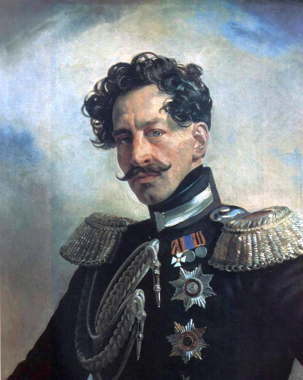 Portrait of General-Adjutant Count Vasily Alekseevich Perovsky, 1837. Oil on canvas. 71.3 х 58 cm. The State Tretyakov Gallery, Moscow, Russia